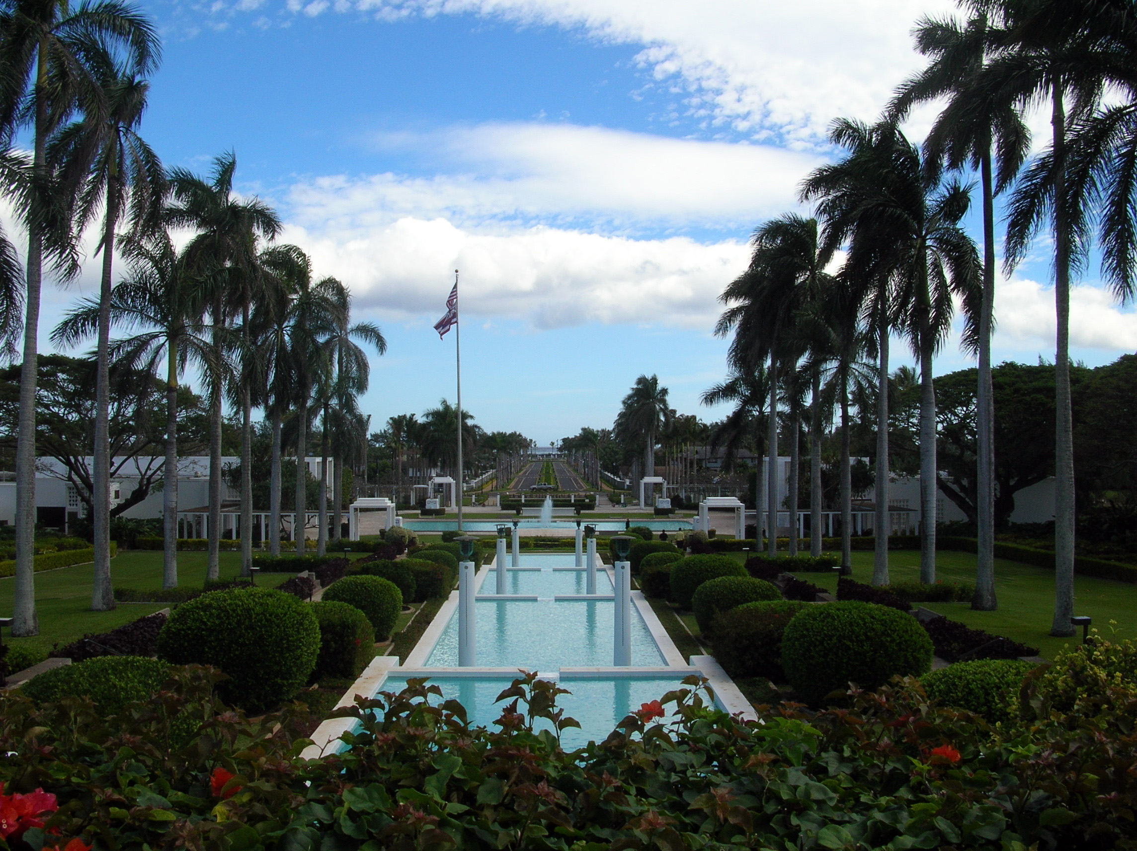 Photographer: myself, Gh5046 A photo of the opposite view of the Laie Hawaii Temple taken 2005/01/16 in Lā'ie, Hawai'i. Other than a possible "auto levels" being done, this photo is in its original state. Summary Laie Hawaii Temple (formerly the Hawaiian Temple) is the fifth oldest temple of The Church of Jesus Christ of Latter-day Saints still in operation. It is also the oldest temple still operating that was built outside of the state of Utah. Located in the town of Lāie, thirty-five miles from Honolulu on the island of Oʻahu, the site of the temple was dedicated by Church President Joseph F. Smith on June 1, 1915. The temple was known as the "Hawaii Temple" until a standard naming convention for temples was adopted in the early 2000s.